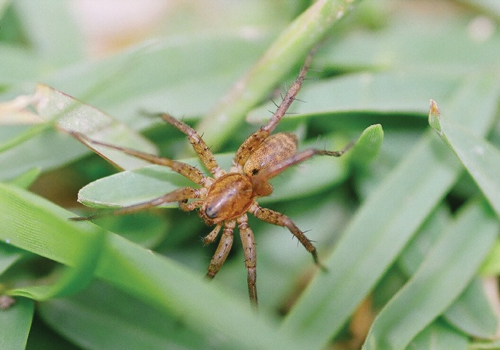 Copa kei male from Cwebe Nature Reserve, South Africa.